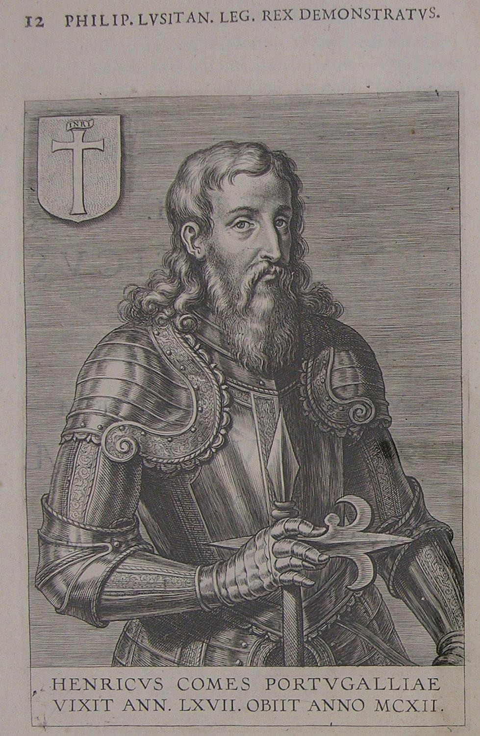 The hatched arms of prince Henry of Portugal from the book of Lobkowitz, Philippus Prudens (1639)